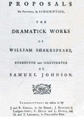 Samuel Johnson's Proposal title page